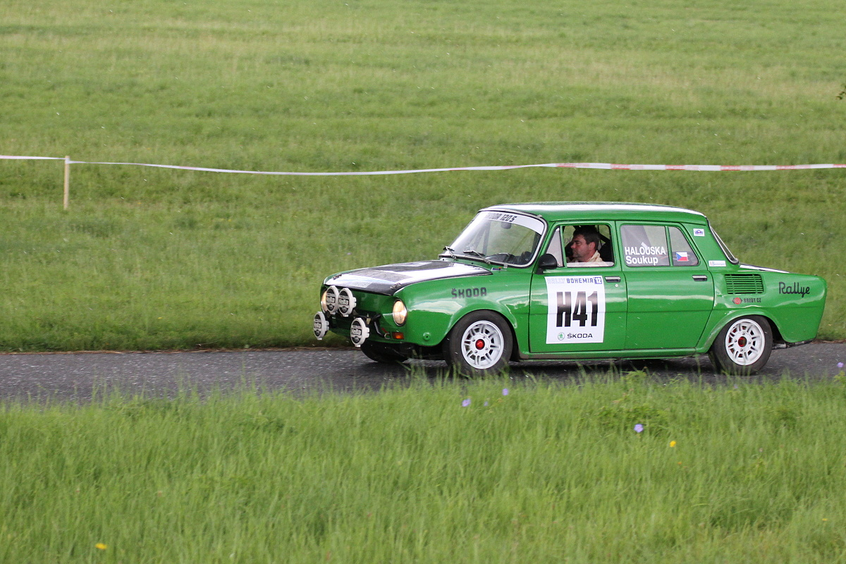 H41 Stanislav Halouska - Aleš Halouska (CZE) - Škoda 120S / group 2 / 1970, replica 2012